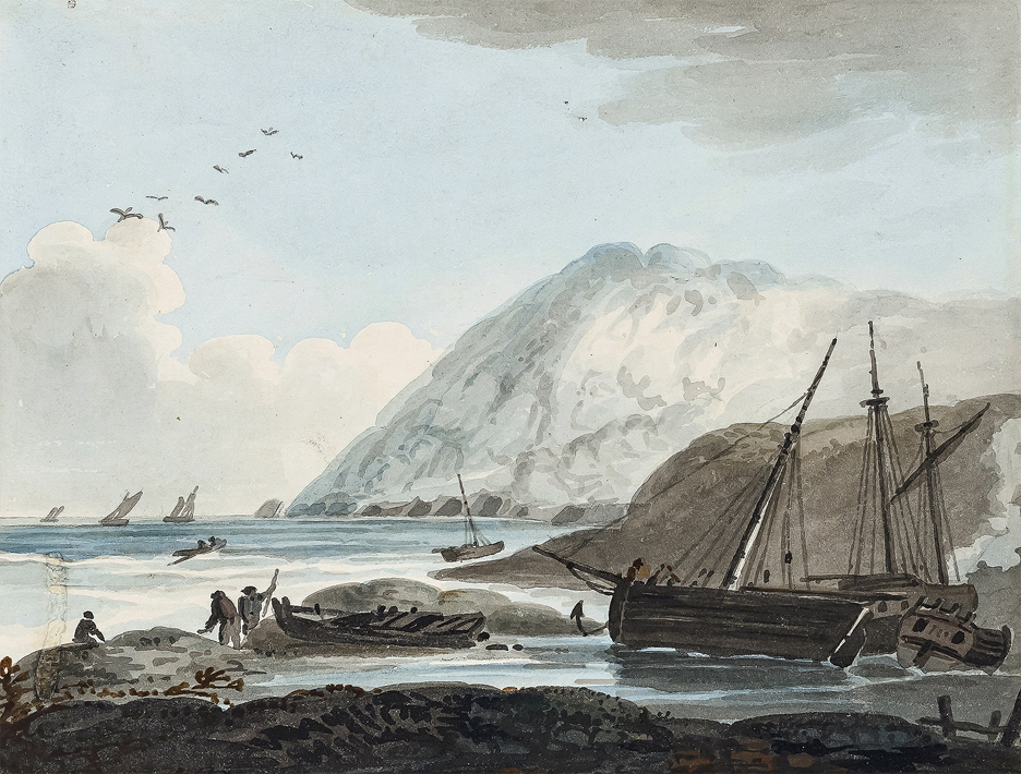 Offered for sale by Abbott and Holder in June 2020, when it was described as " Ireland. ‘Bray Head’ Ink and watercolour. Inscribed verso, and ‘Coote Carroll’ 6x8 inches. ".